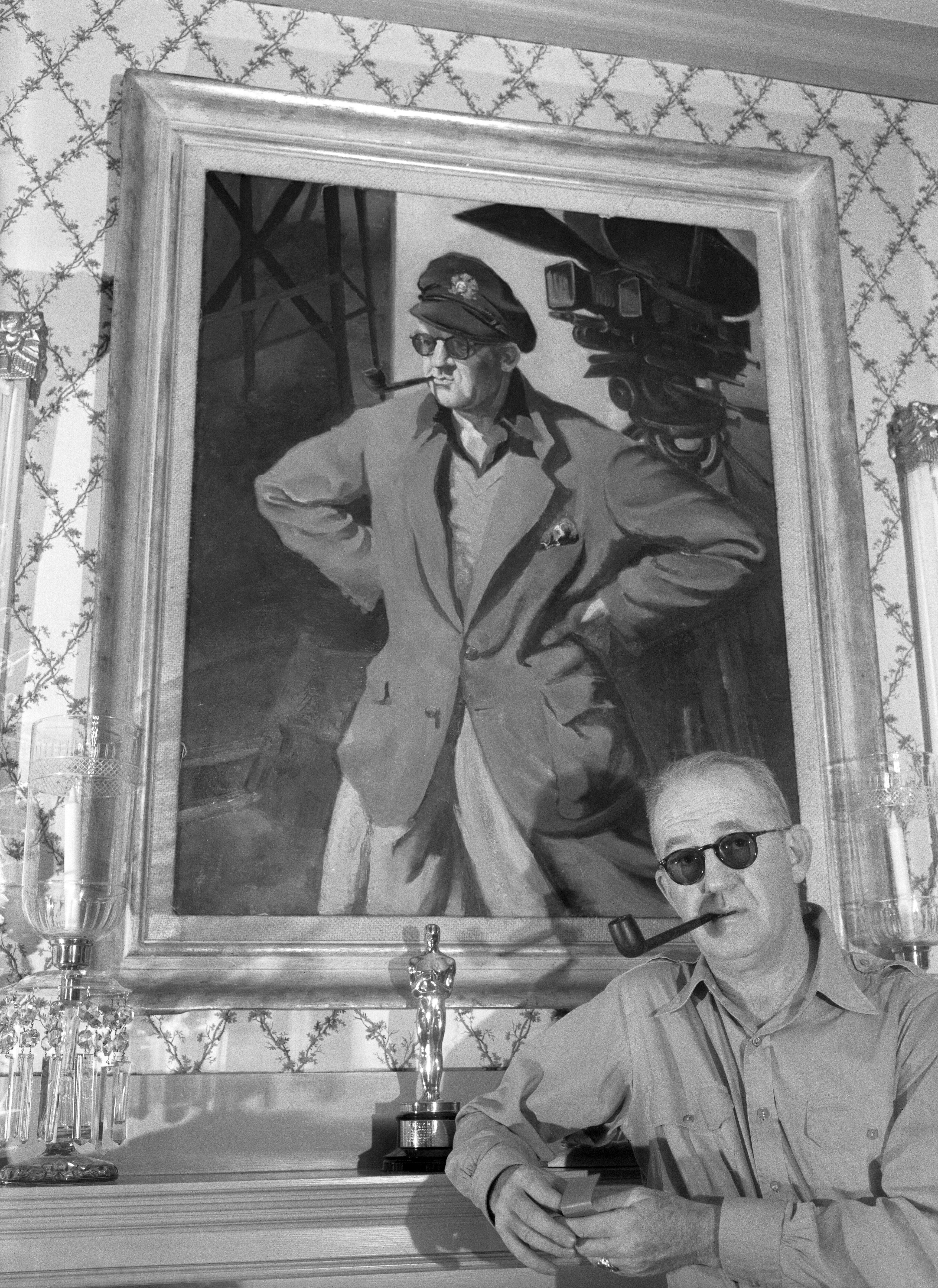 Director John Ford standing before portrait of himself and Academy Award statue, circa 1946